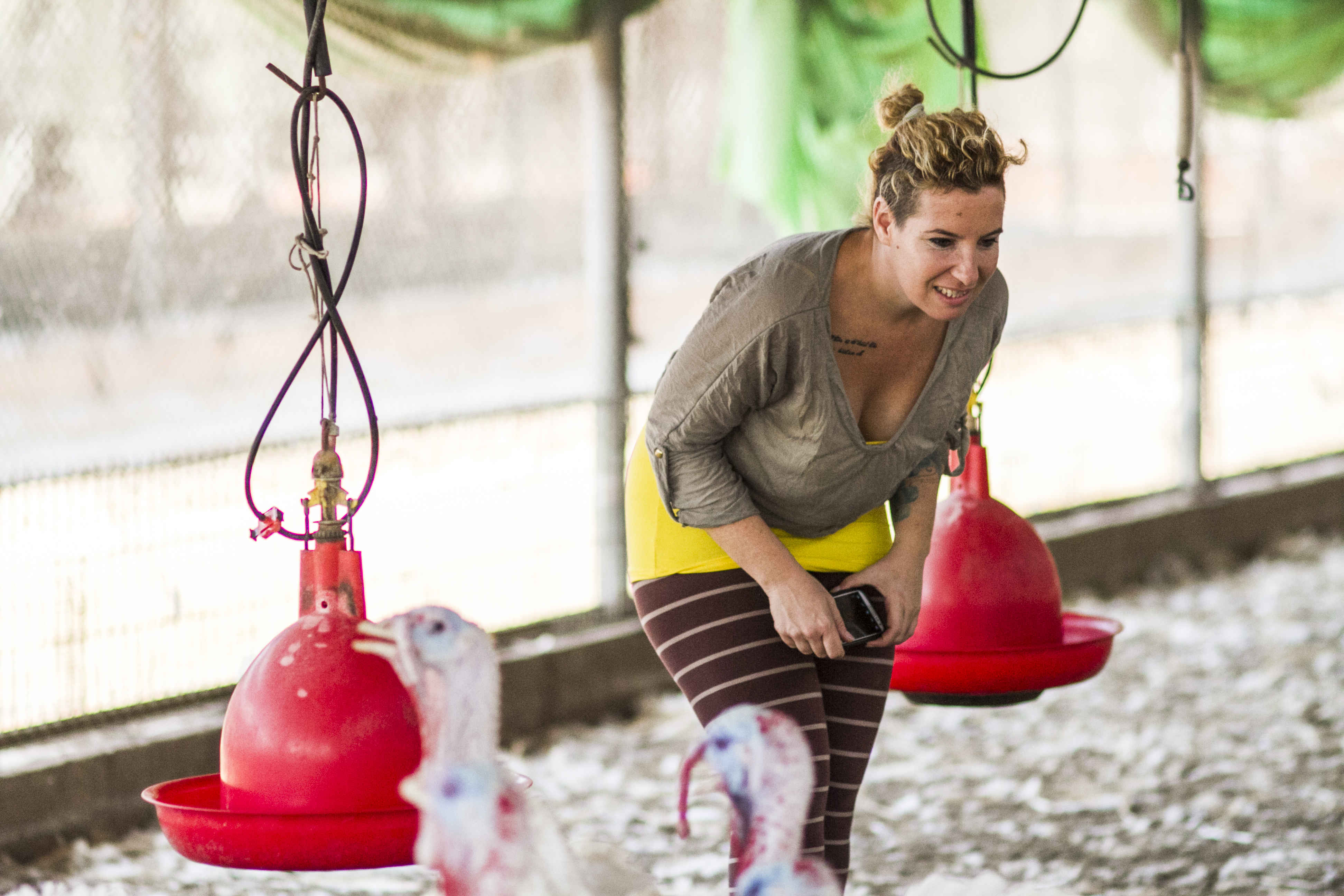 tal gilboa